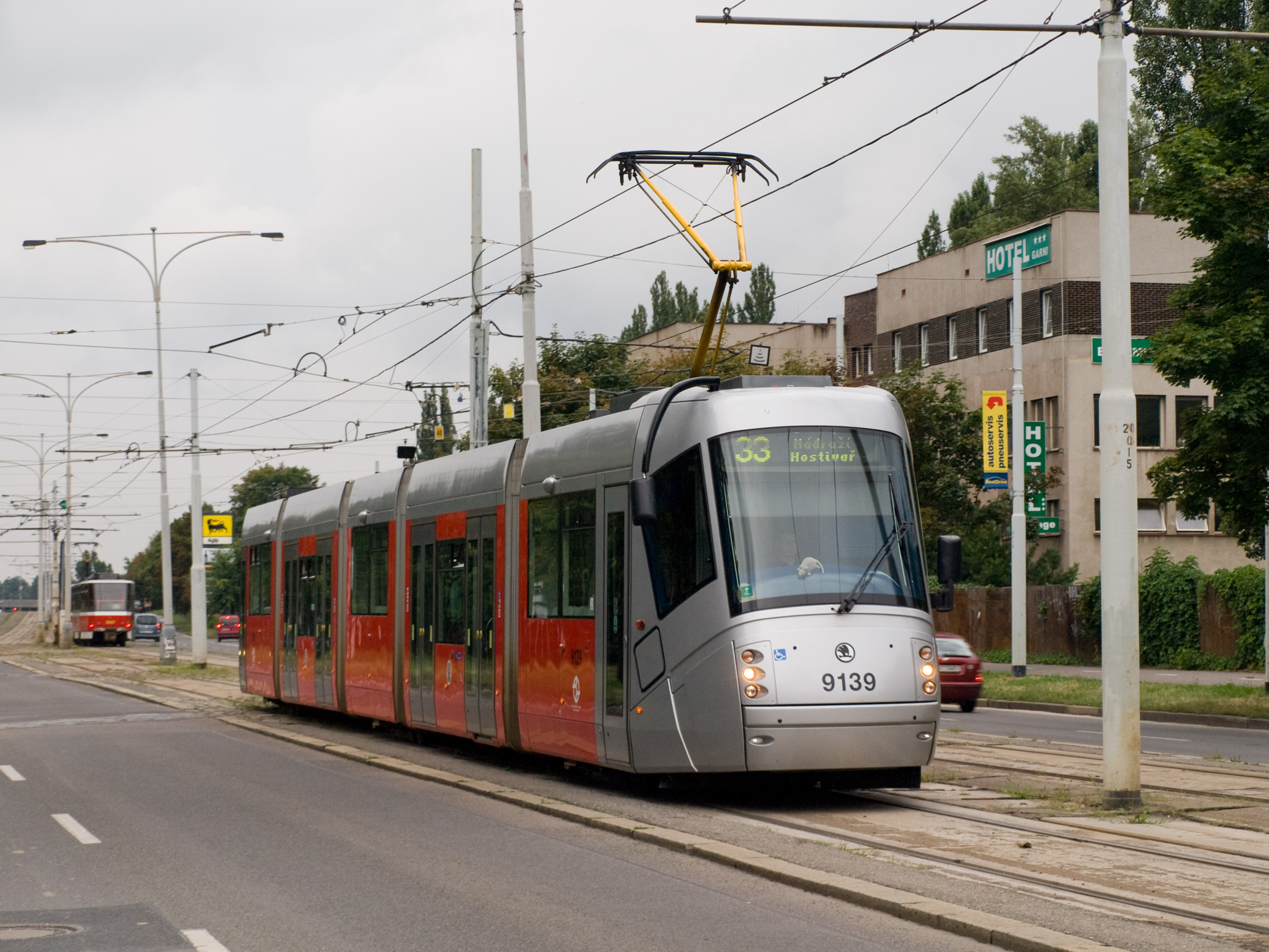 Škoda 14T, near Dvorce tram loop, Prague